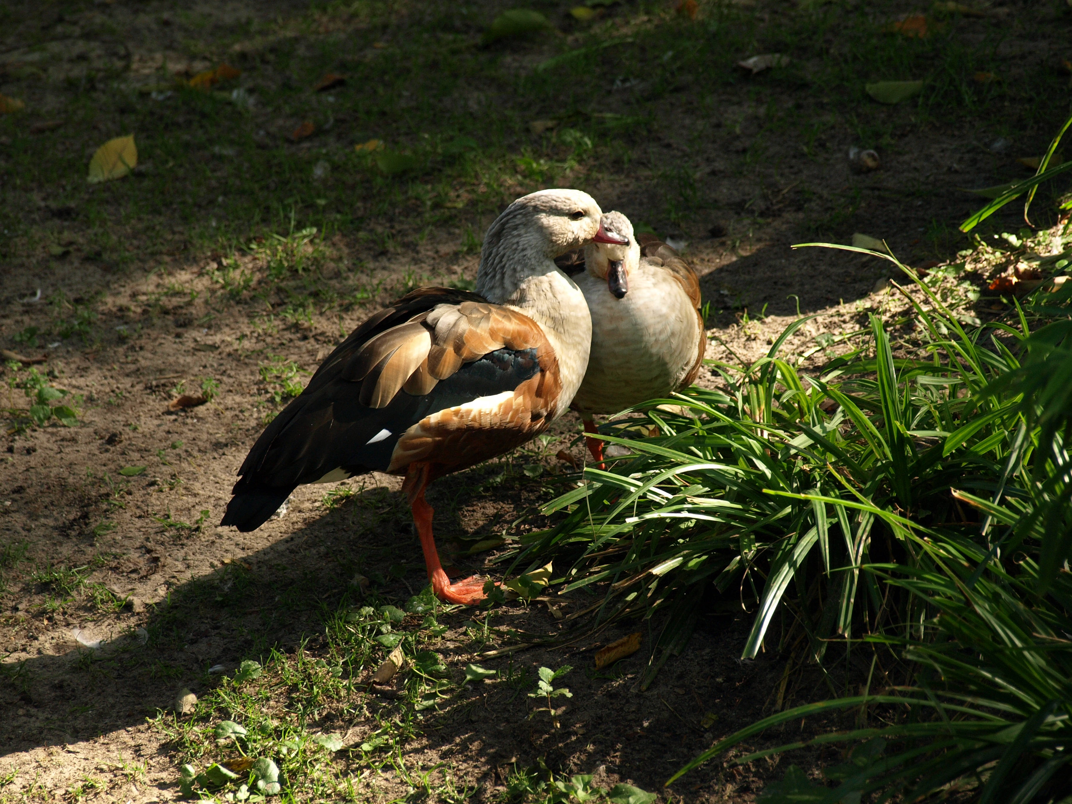 Orinoco Goose (Neochen jubata) at Berlin Zoo.